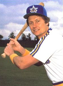 Professional baseball player Tom Paciorek